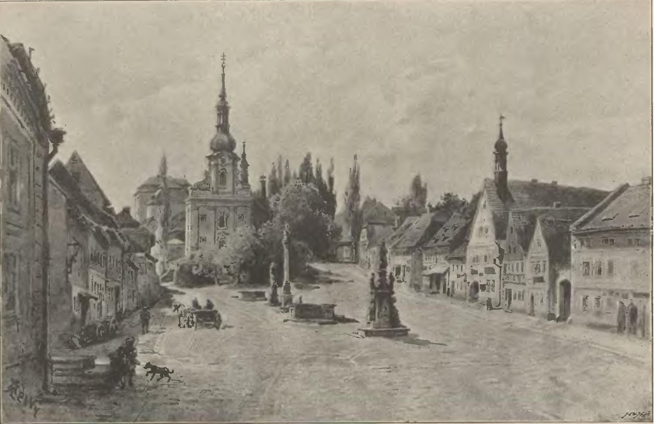 Main square of Doupov, a demolished city in a present-day military area of the Czech Republic.